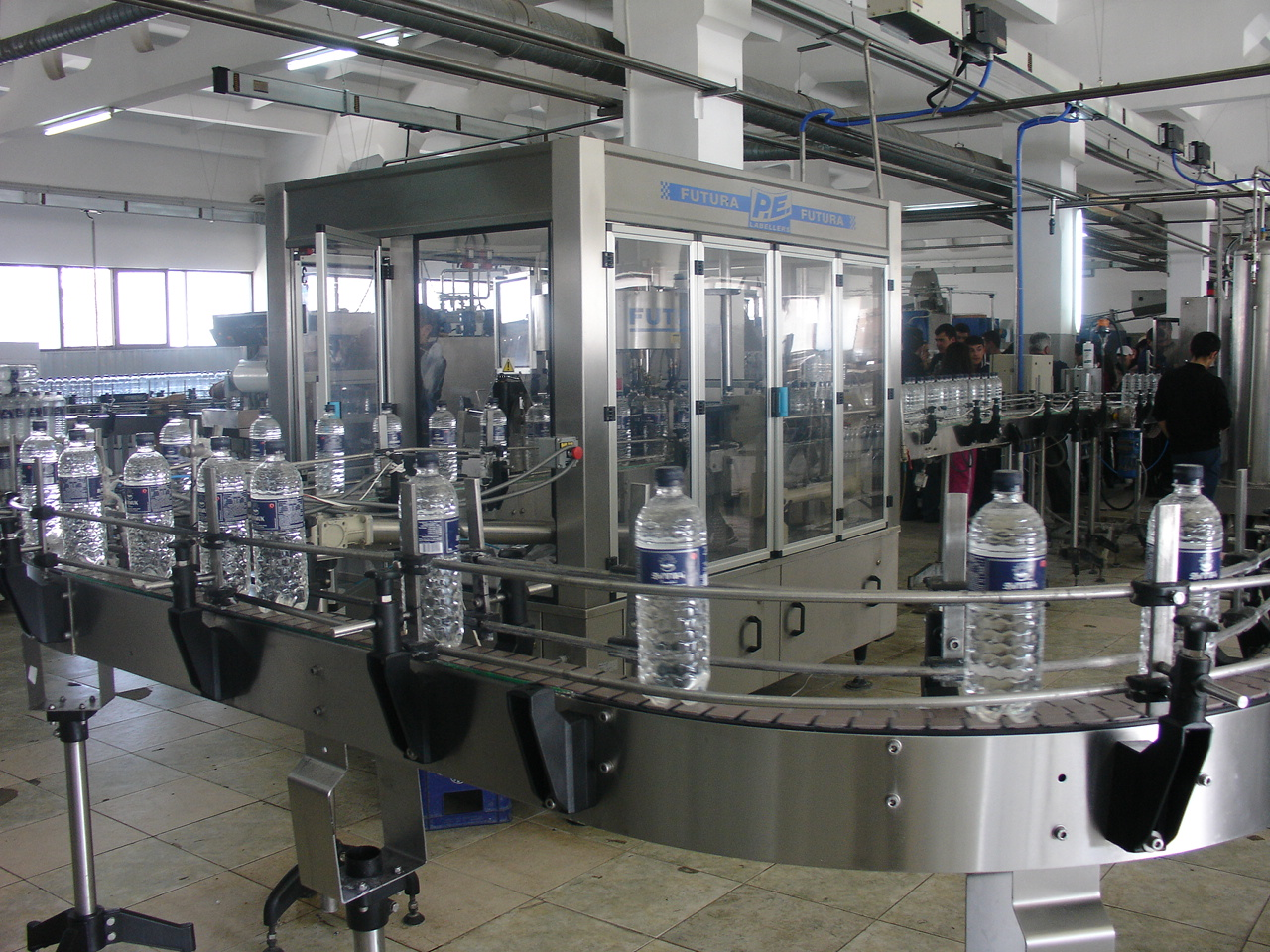 Manufacturing process of Jermuk mineral water.